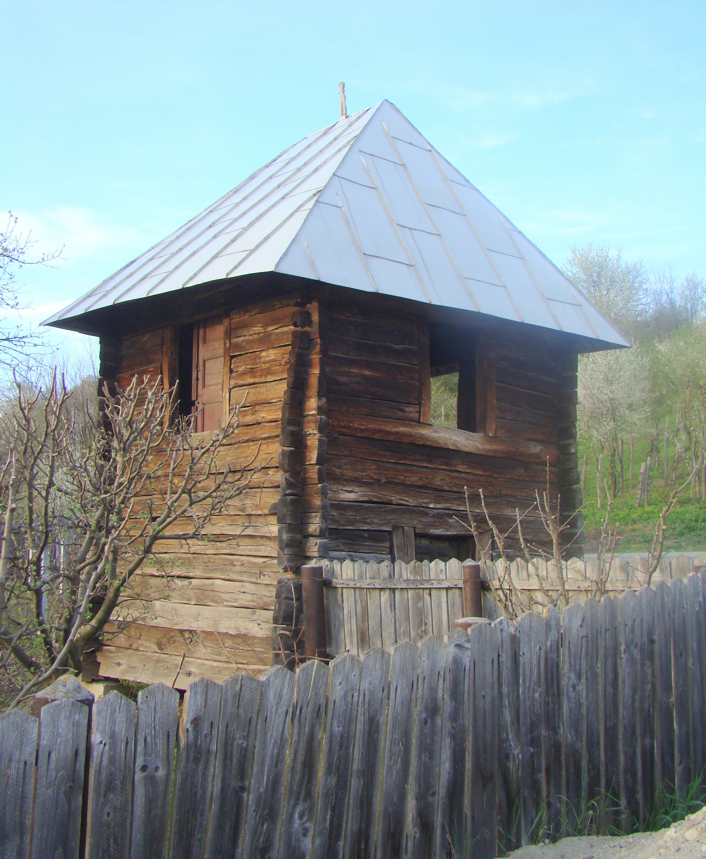 Wooden church in Ursoaia, Gorj county, Romania